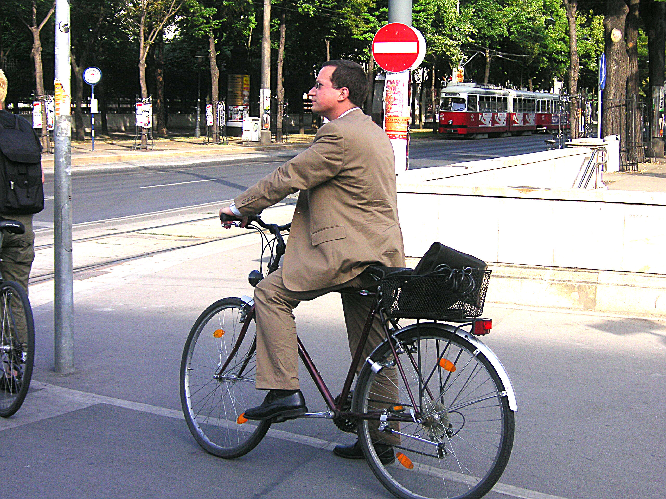 Urban cycling, Ring Road, Vienna, Austria